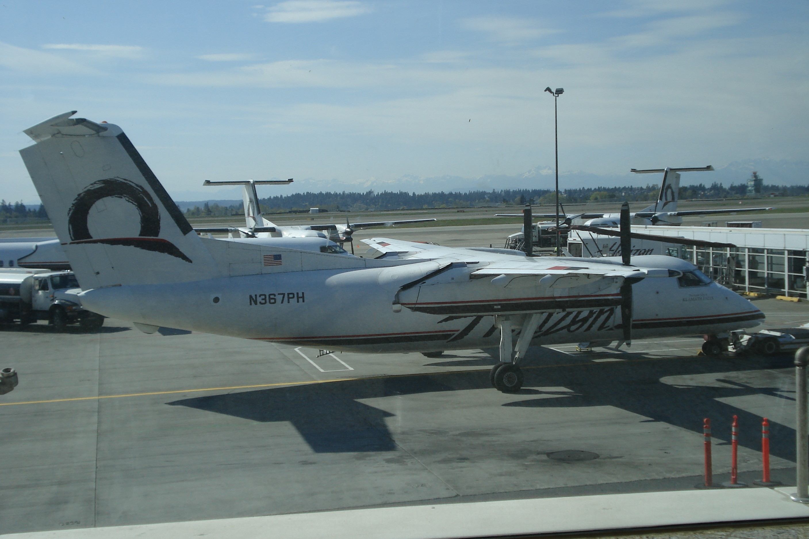 A Horizon Air Dash 8-202 at Sea-Tac airport in 2007.